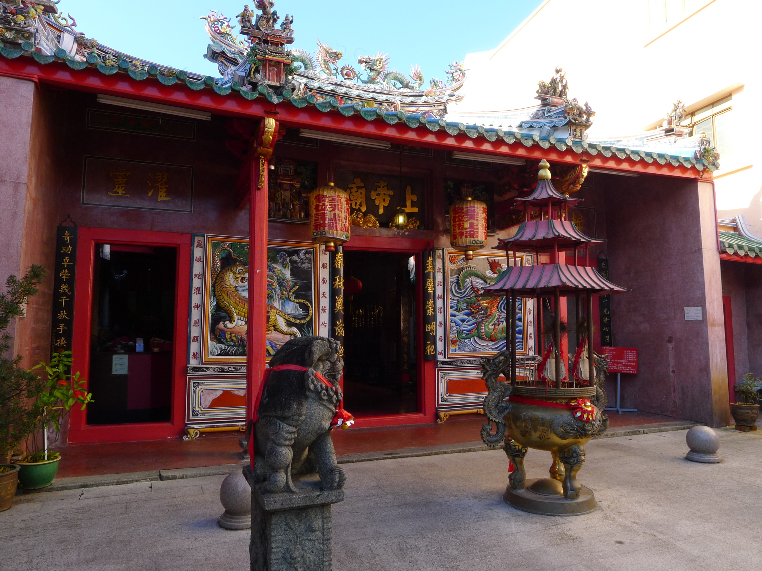 A Chinese Temple on Carpenter Street in Kuching.